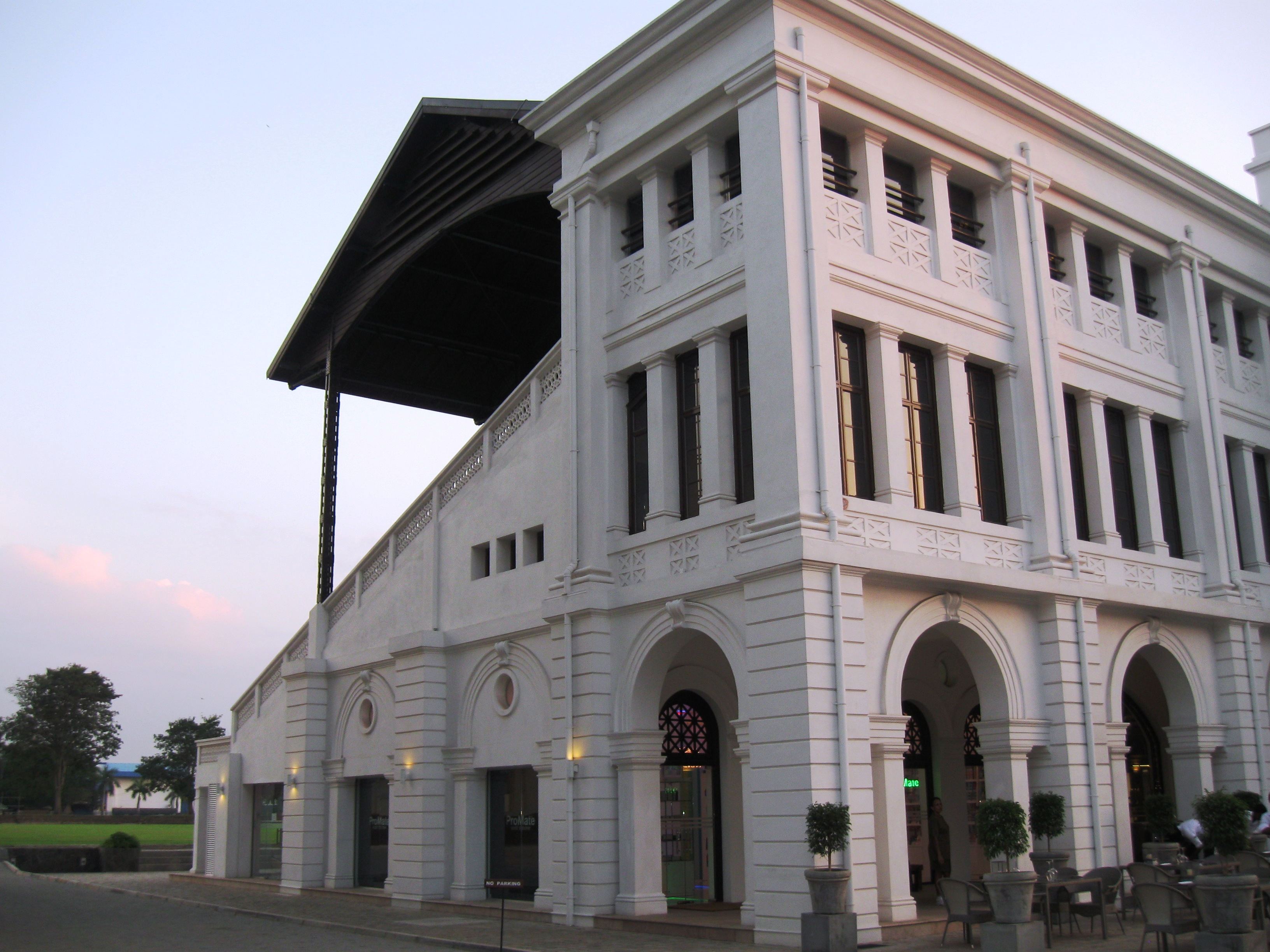 Photograph of Colombo Racecourse